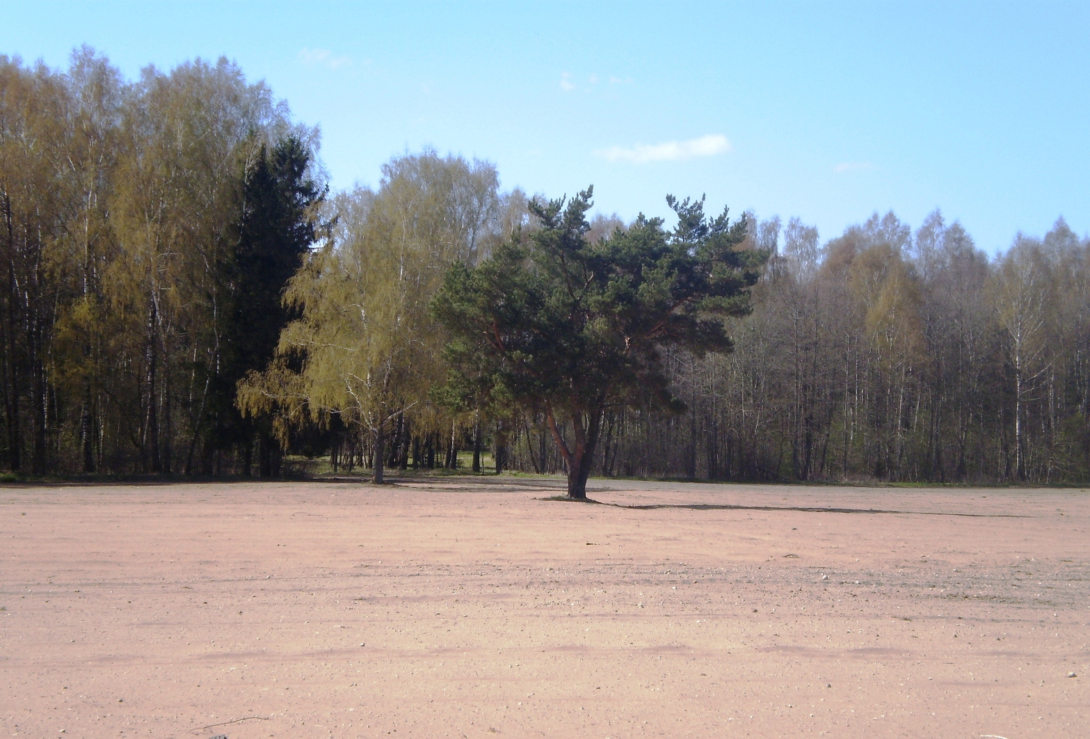 Pine and birch in the fields near Lukšiai village, Kėdainiai dst., Lithuania